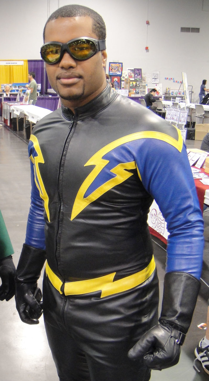 photo 2011 taken by Doug Kline If you're interested in higher resolution versions of my images, contact me via my profile page.